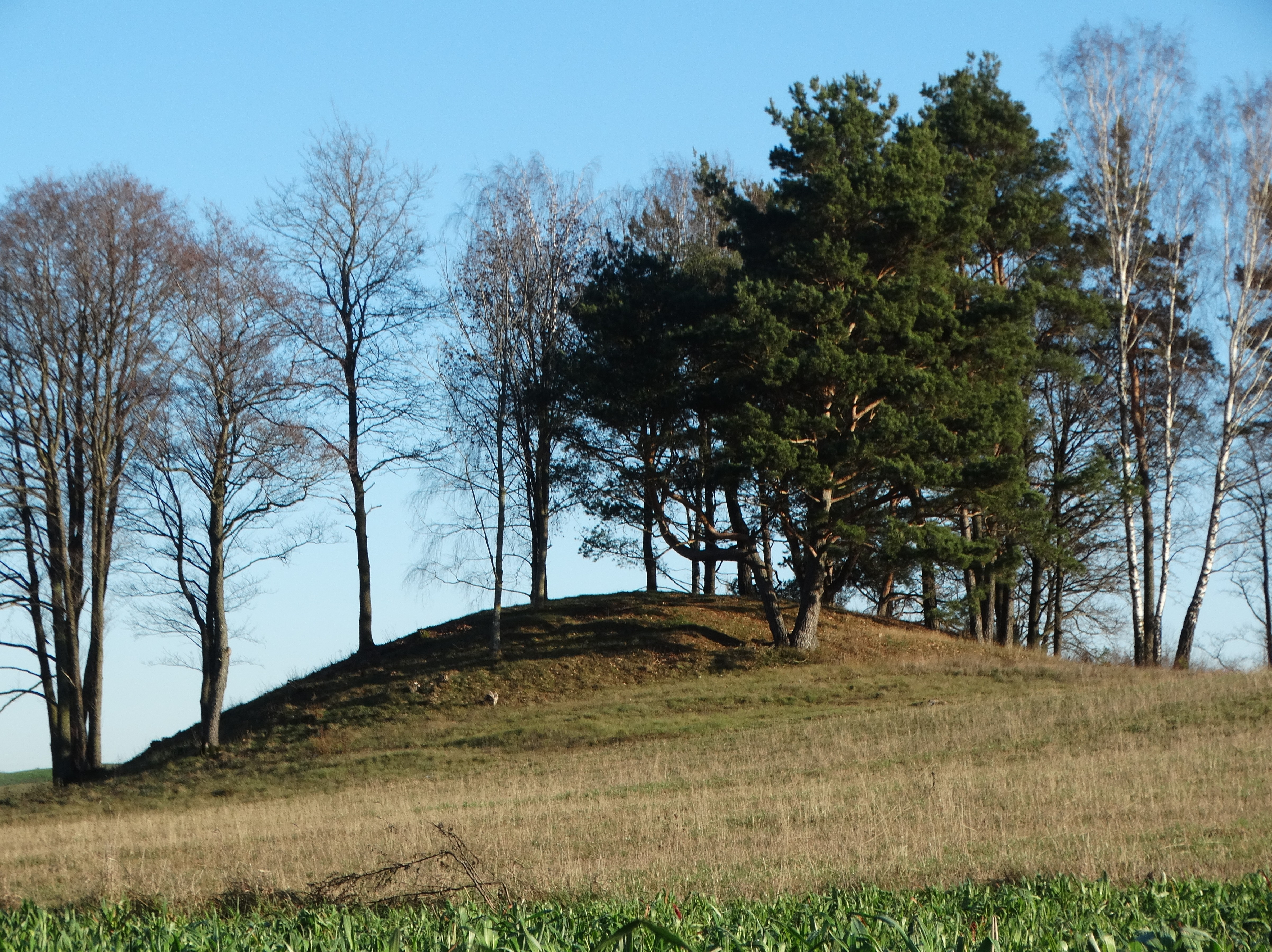 Hillfort, Čiudiškiai, Prienai district, Lithuania